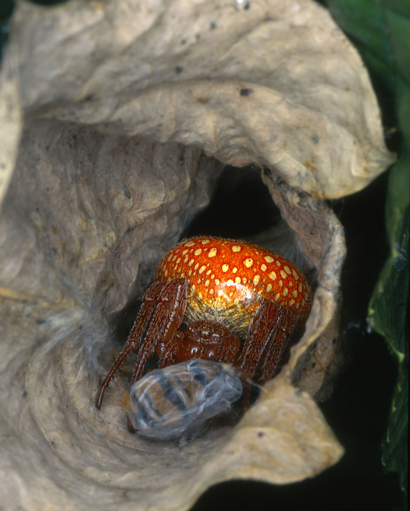 Description: Araneus alsine